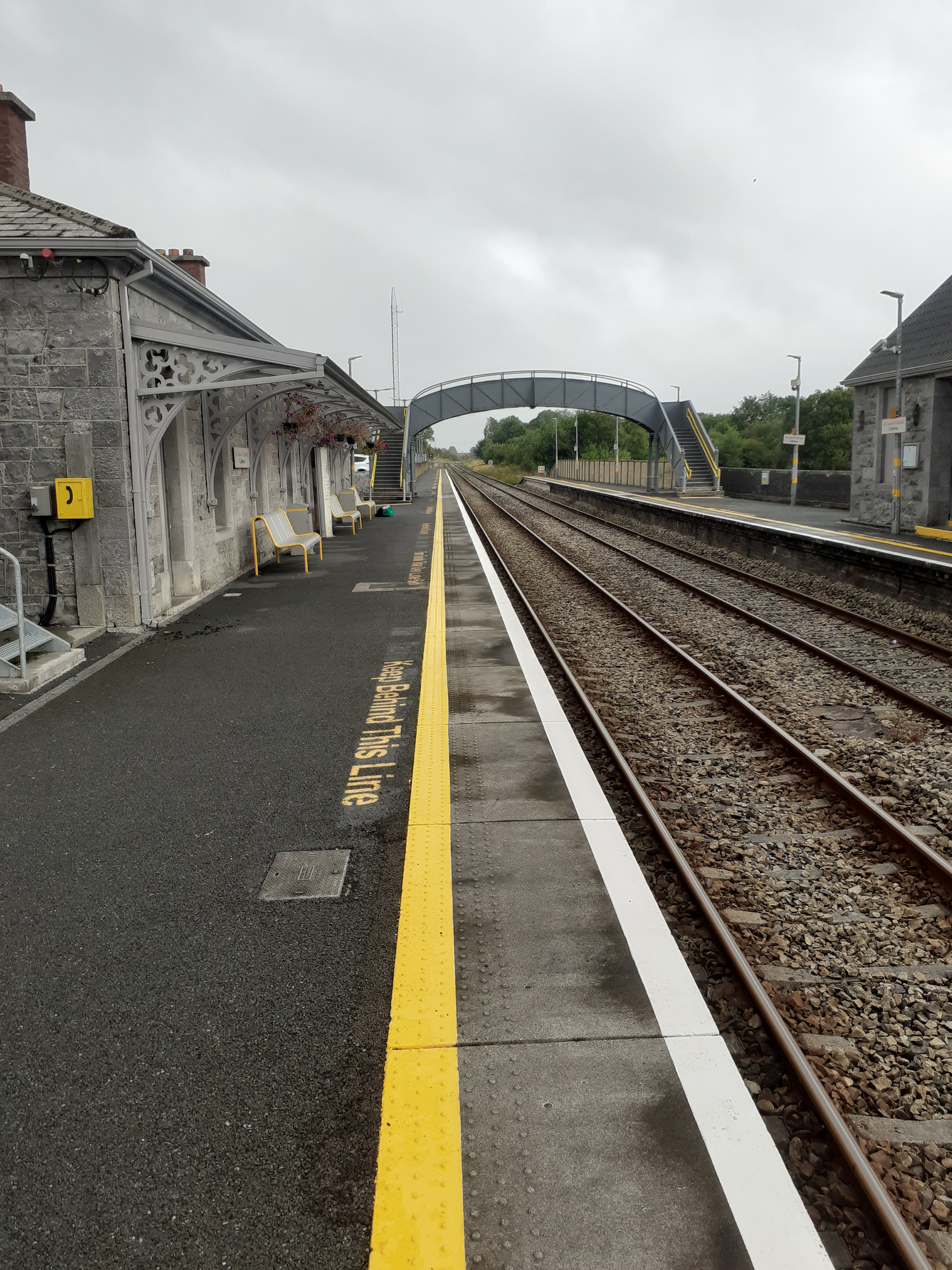 Castlerea train station.